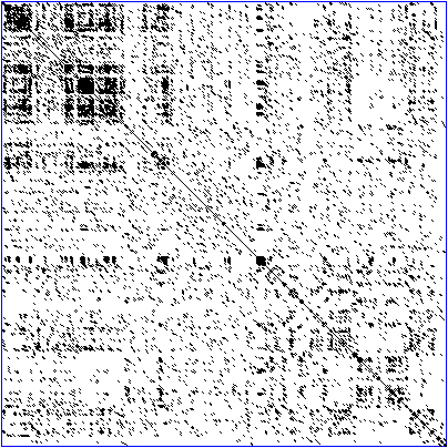 Dot plot of a human zinc-finger transcription factor (GenBank NM_002383) against itself to show self-similarity.